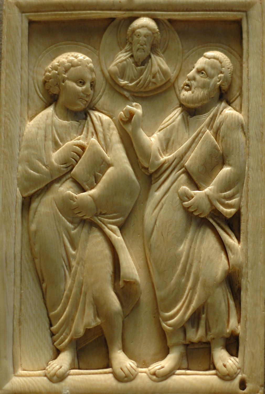 Left liptych leaf representing the Christ and two apostles.